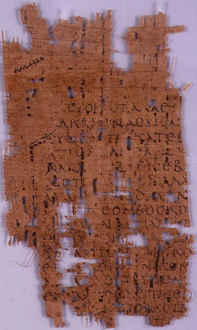 Papyrus Oxyrhynchus 694 - Princeton University Library, AM 4424 - Theocritus, Idyll XIII.19-34 (Hylas and the Nymphs)